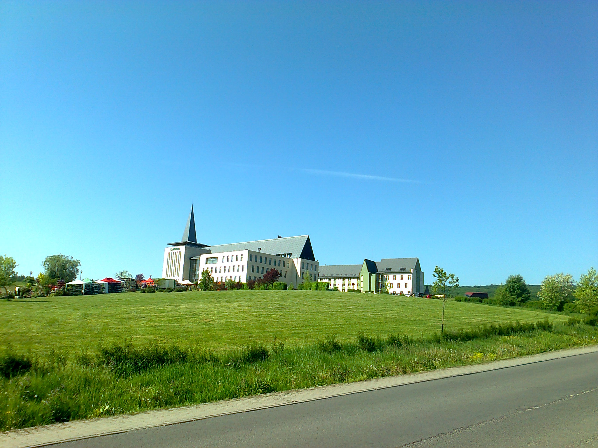 Sapientia Hungarian University of Transylvania, Tg. Mures Campus